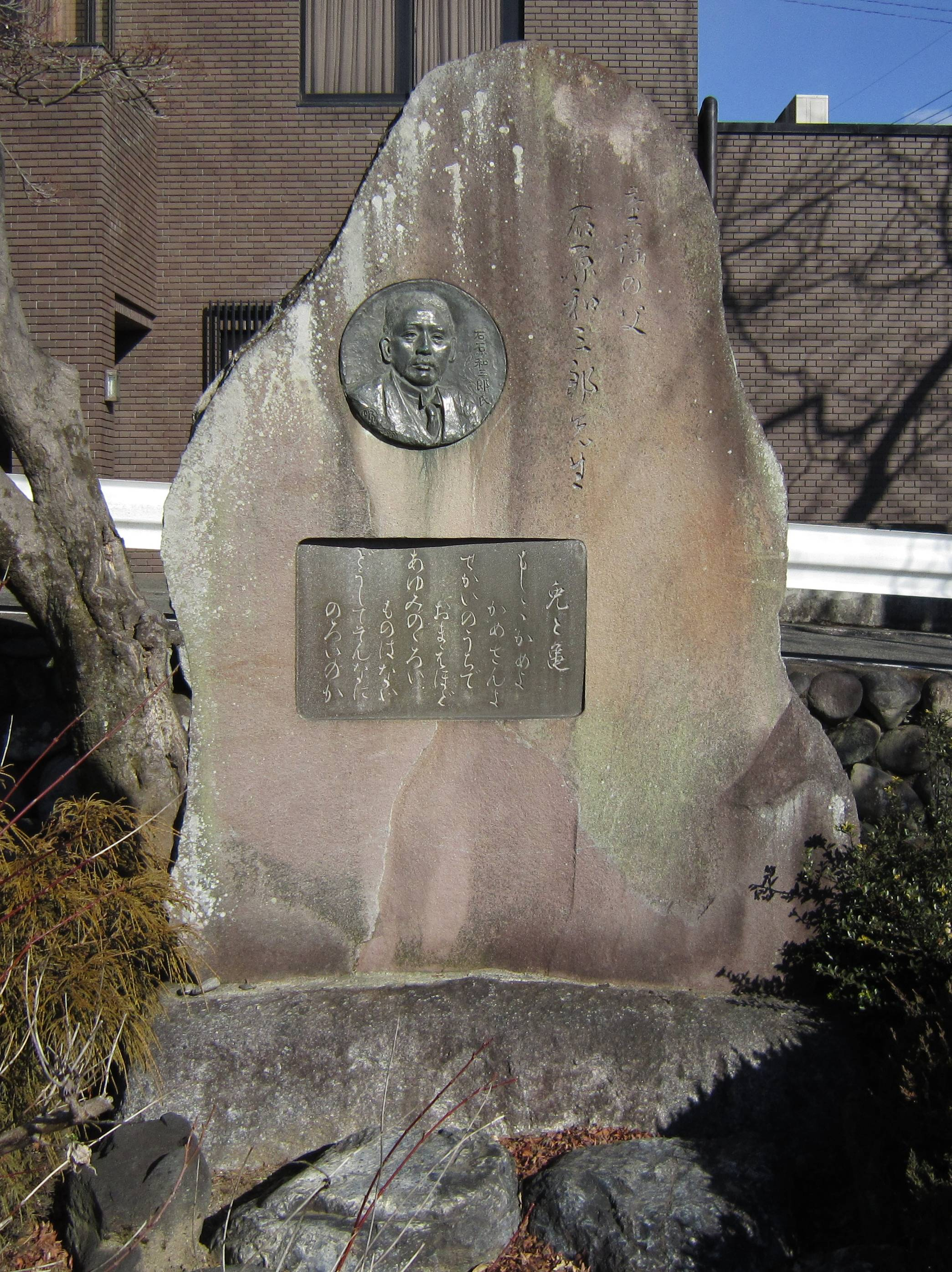 Ishihara Wasaburo monument.